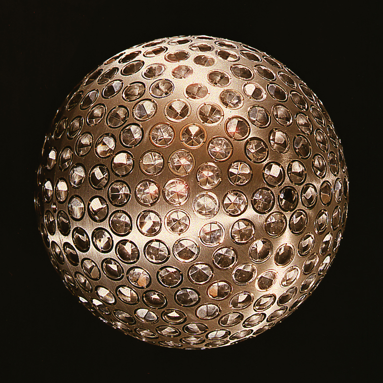 Image of LAGEOS satellite, courtesy of NASA (therefore PD)